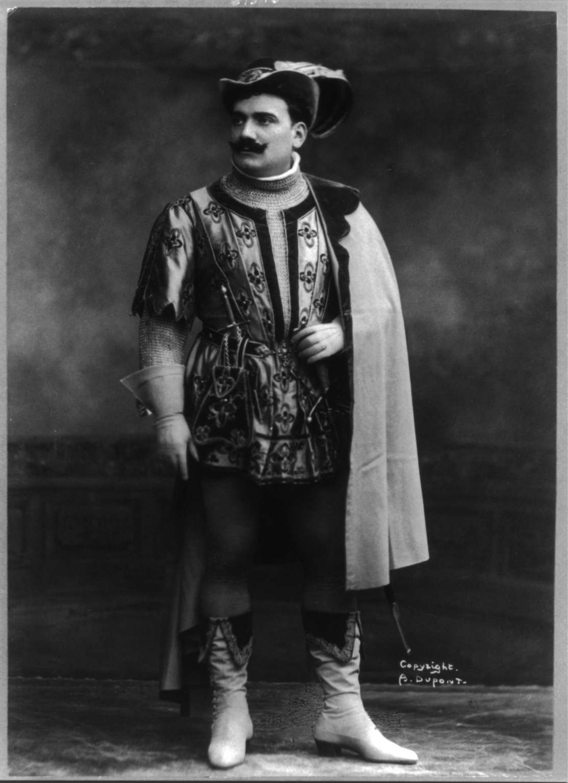 Enrico Caruso, 1873-1921, full-length portrait, facing left, in costume